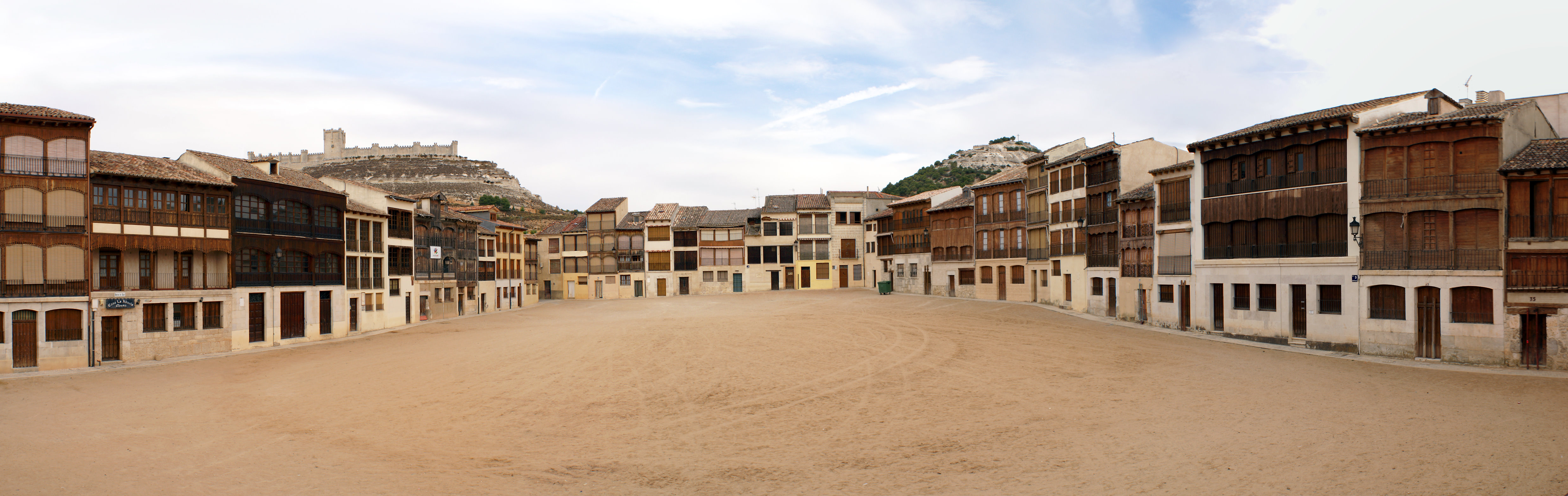 Plaza del Coso in Peñafiel, Valladolid, Spain. It's a town square as well as bullring.